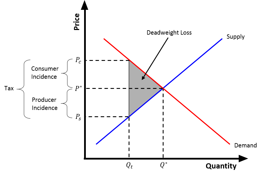 A graph of a tax wedge. The graph shows deadweight loss, producer incidence and consumer incidence of a tax.